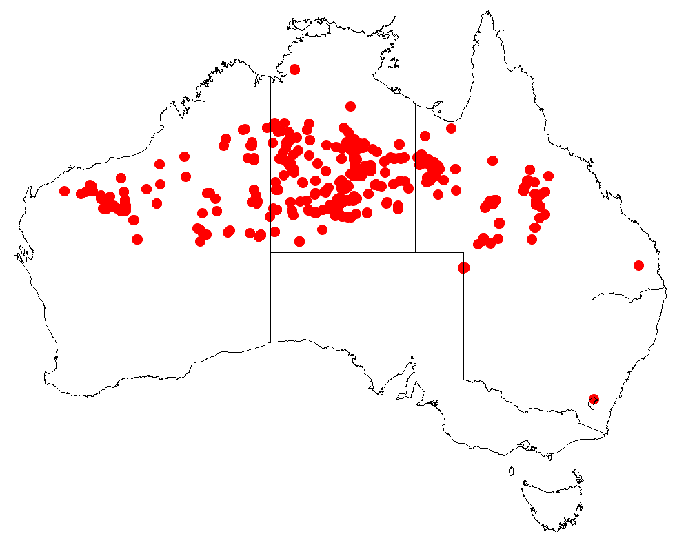 Acacia adsurgens Occurrence data from Australasia Virtual Herbarium downloaded from on 8 December 2018